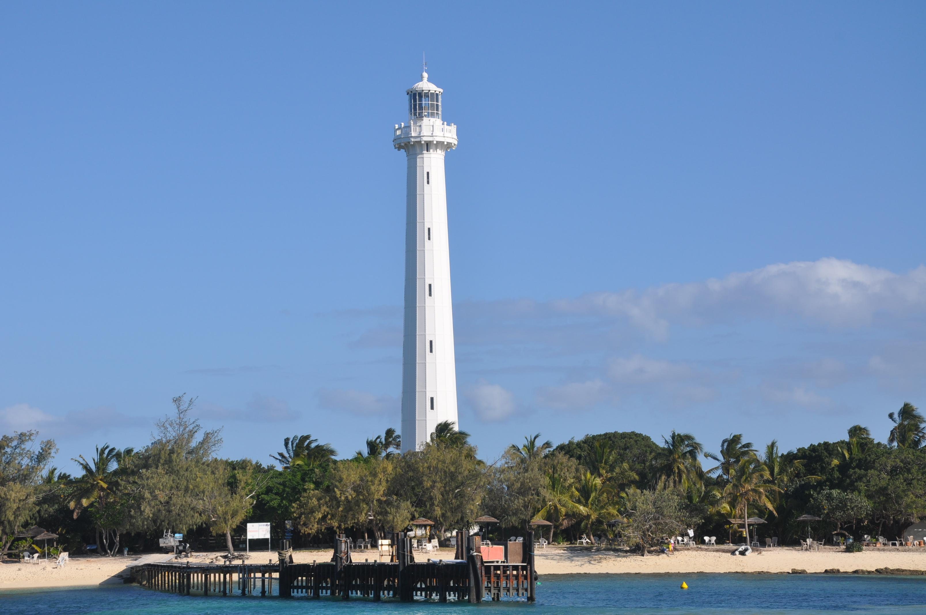 The Amédée lighthouse, located on Amédée Island, New Caledonia.